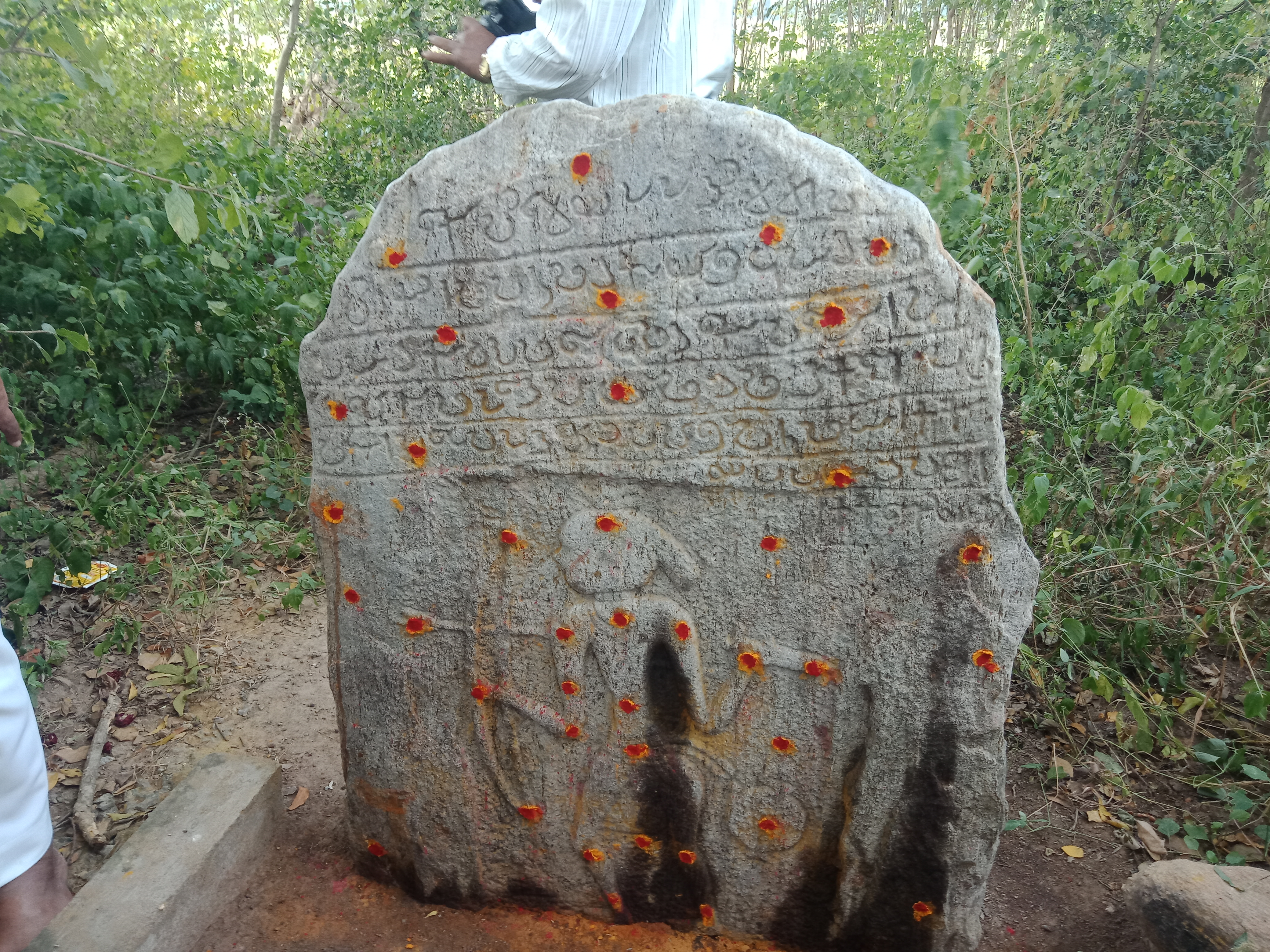 Pallava period herostones at Kilravanthavadi with vattezhuthu inscription